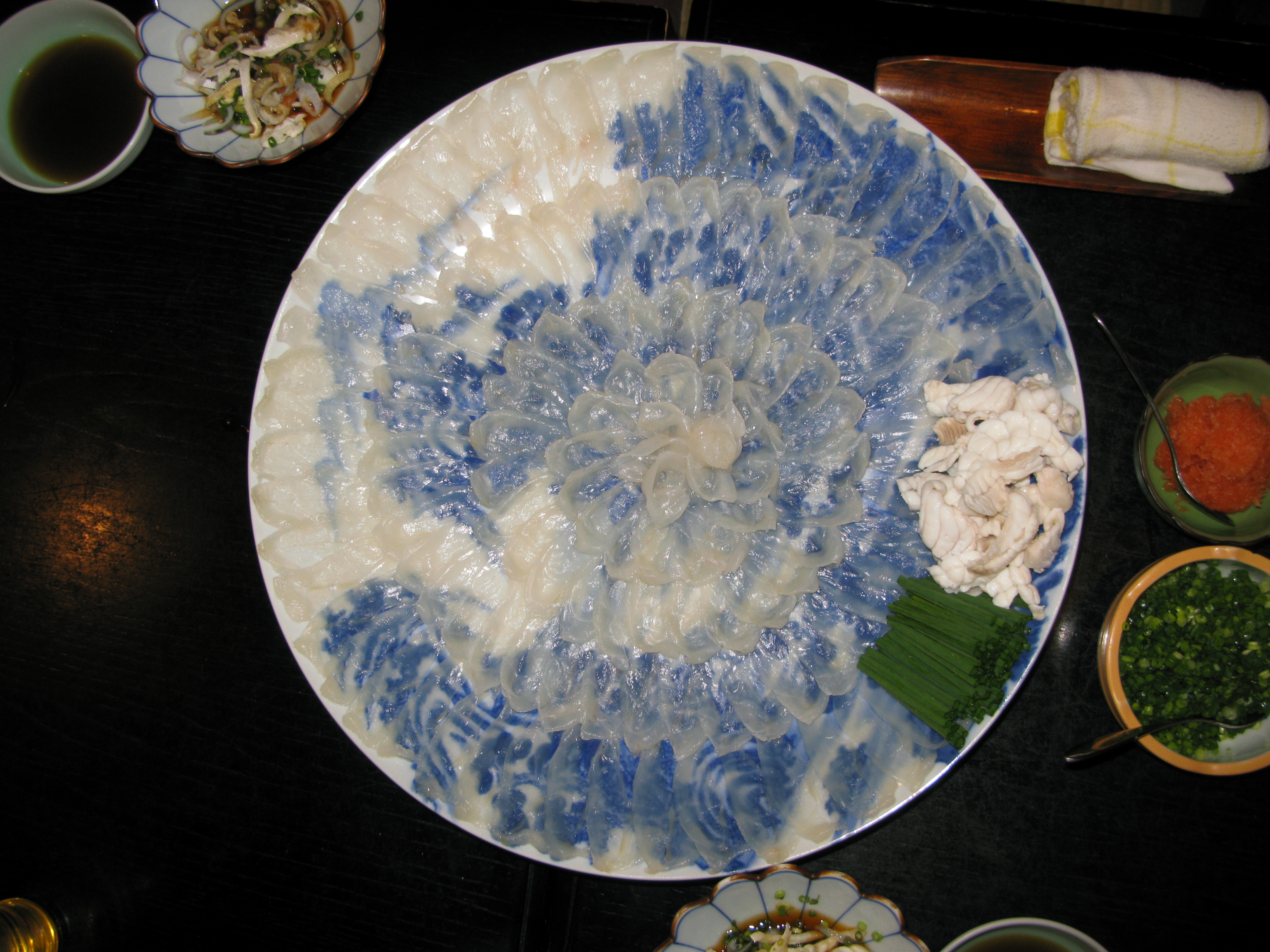 Sashimi of Torafugu